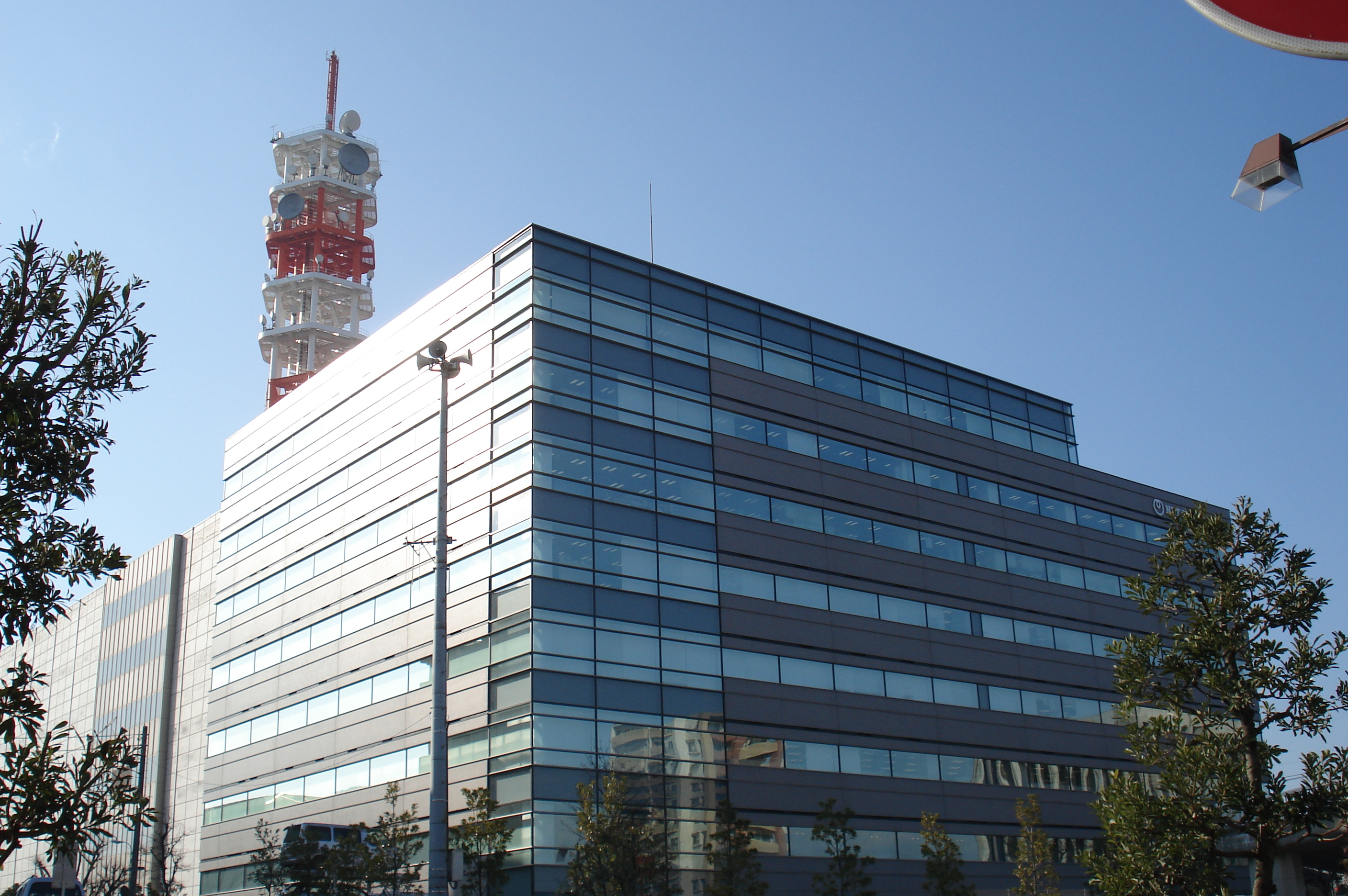 NTT East New-Tokiwa(Saitama) BLD.